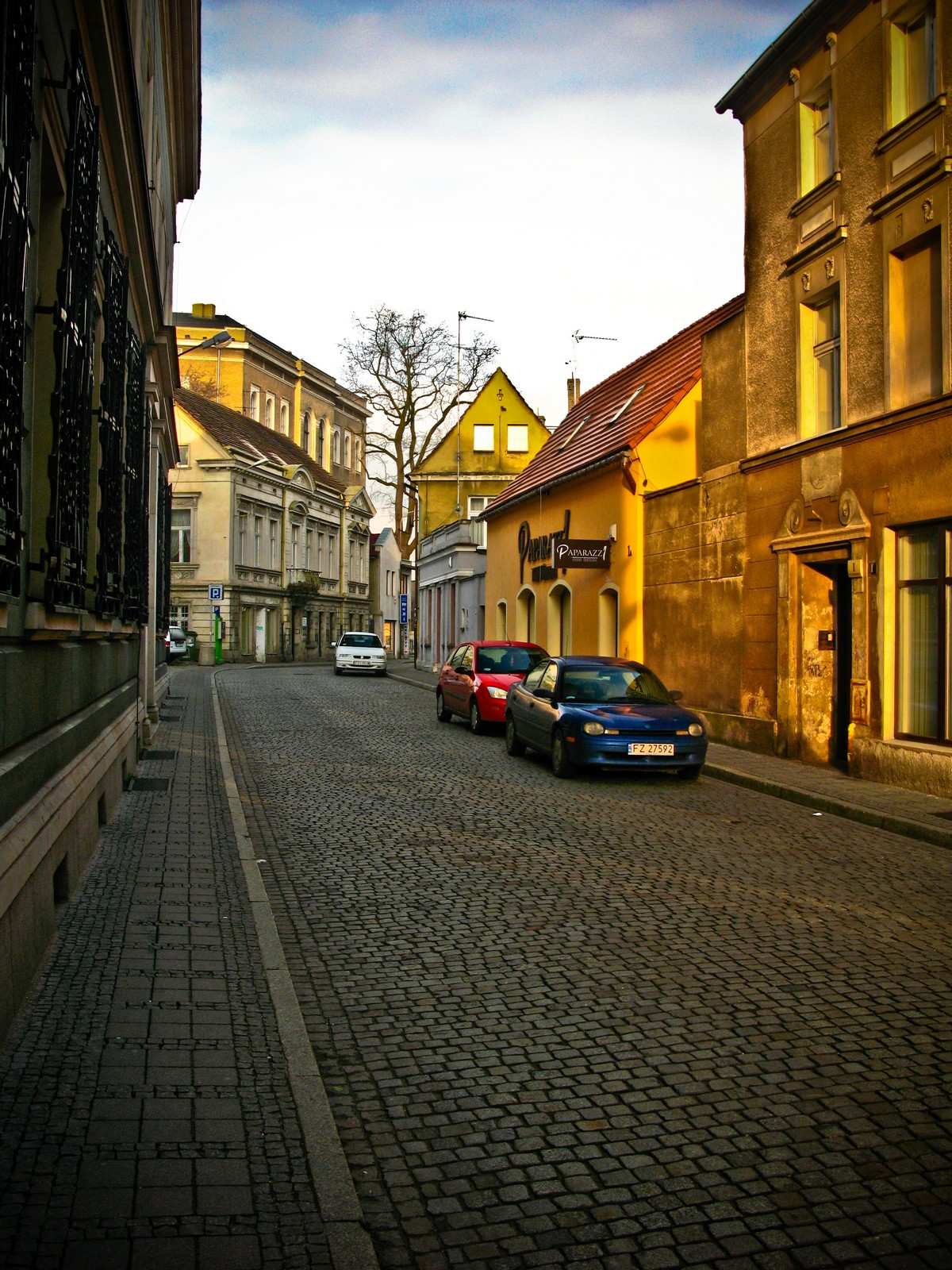 Jedności street